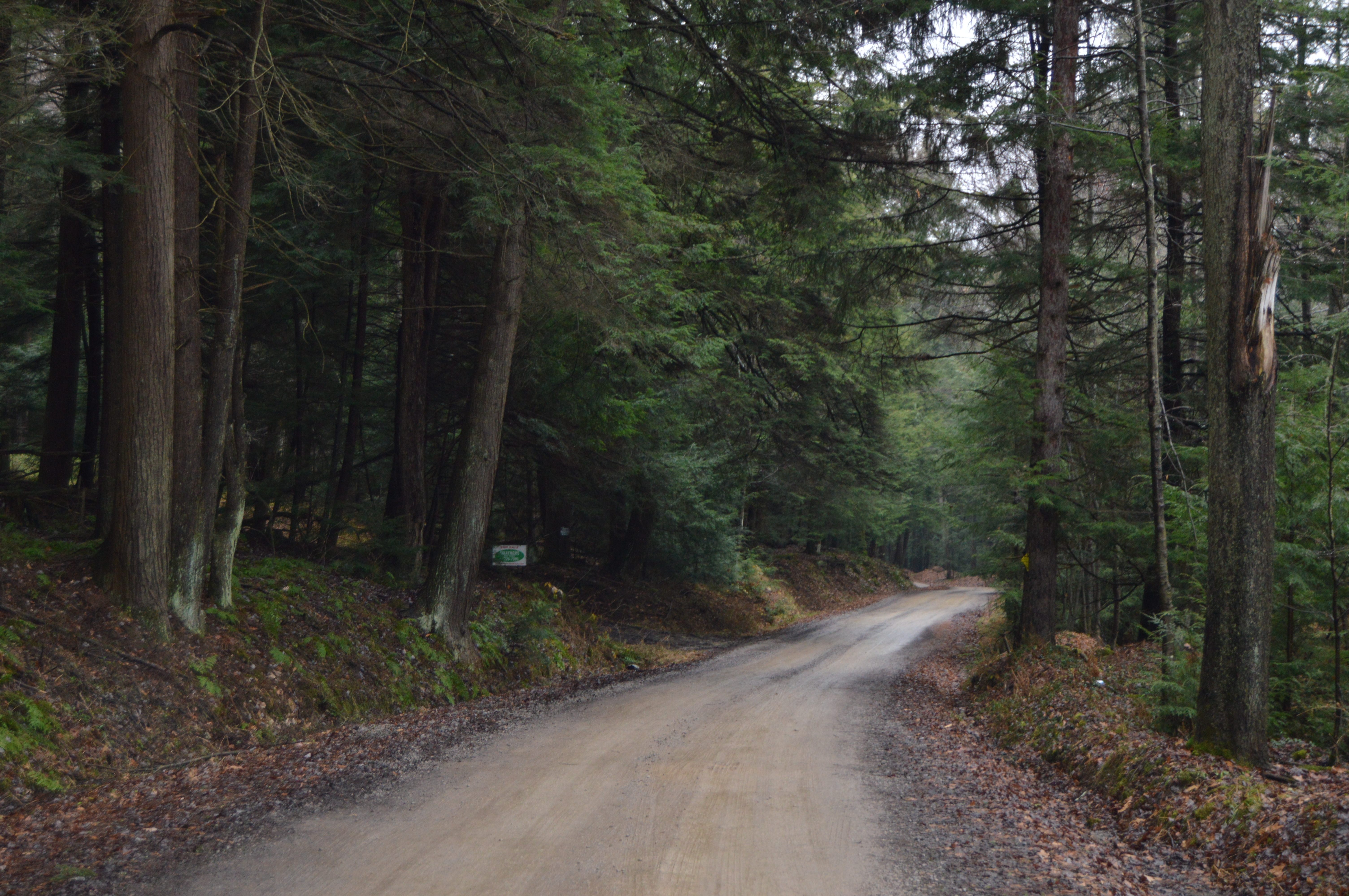 A dirt road pierces a forest in Clarion Township, Clarion County, Pennsylvania, United States. The scene looks north on Millcreek Road north of Strattanville.